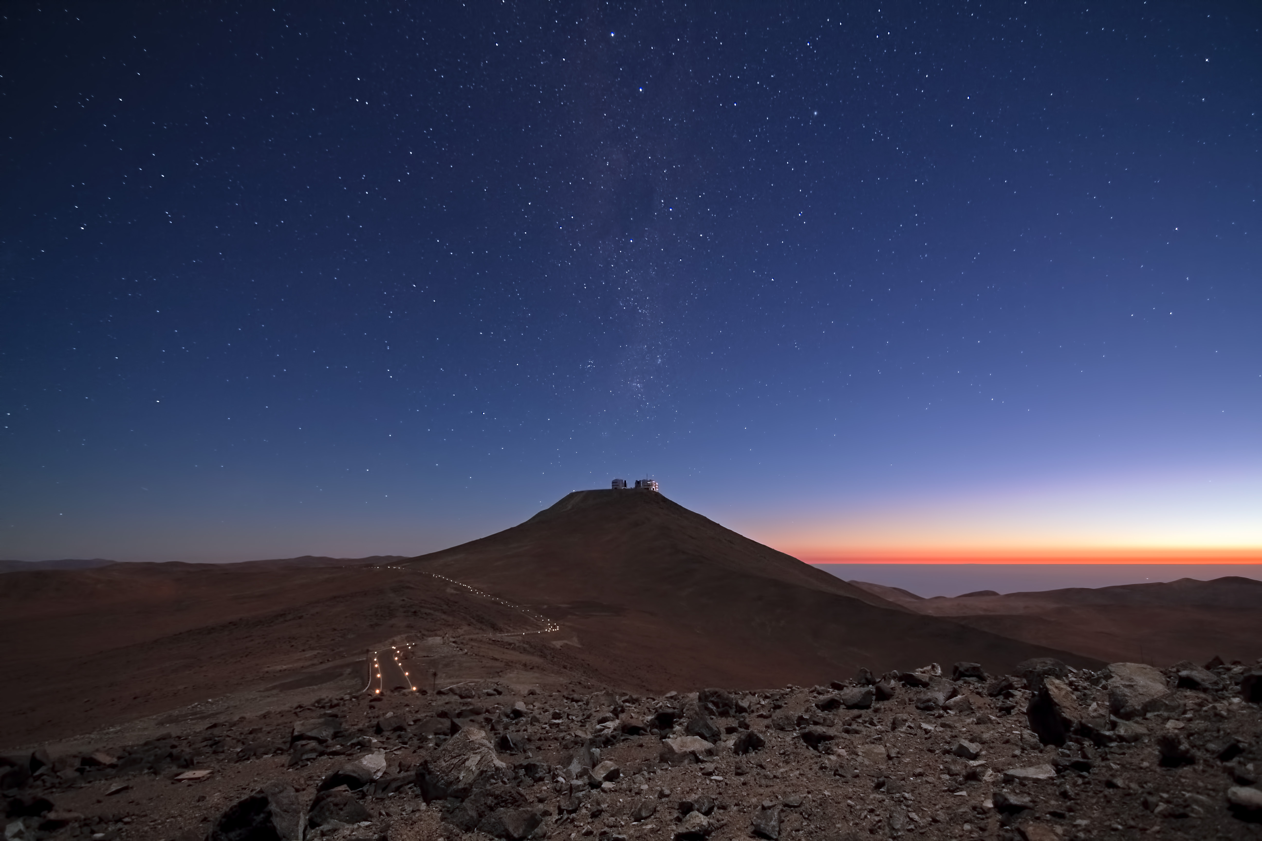 On a cold dark night on Mars, in the middle of an arid desert, a narrow road lit by artificial lights winds its way up to a lonely human outpost on the top of an old mountain. Or at least, that’s what a science fiction fan might make of this almost unearthly view. The photograph actually shows ESO’s Paranal Observatory, home to the Very Large Telescope (VLT), on Earth. Nevertheless, it’s easy to imagine it as a future view of Mars, perhaps at the end of the century. Which is why Julien Girard, who took this photograph, calls it “Mars 2099”. Located at 2600 metres altitude, ESO’s Paranal Observatory sits in one of the driest and most desolate areas on Earth, in Chile’s Atacama Desert. The landscape is so Martian, in fact, that the European Space Agency (ESA) and NASA test their Mars rovers in this region. For example, an ESA team recently tested the self-steering Seeker rover, as described in ann12048.